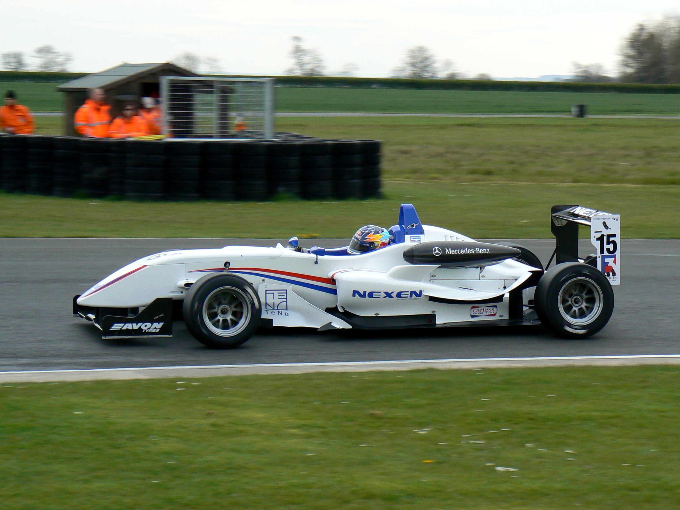 Oliver Oakes driving for Eurotek at the Croft round of the 2008 British Formula Three Championship.